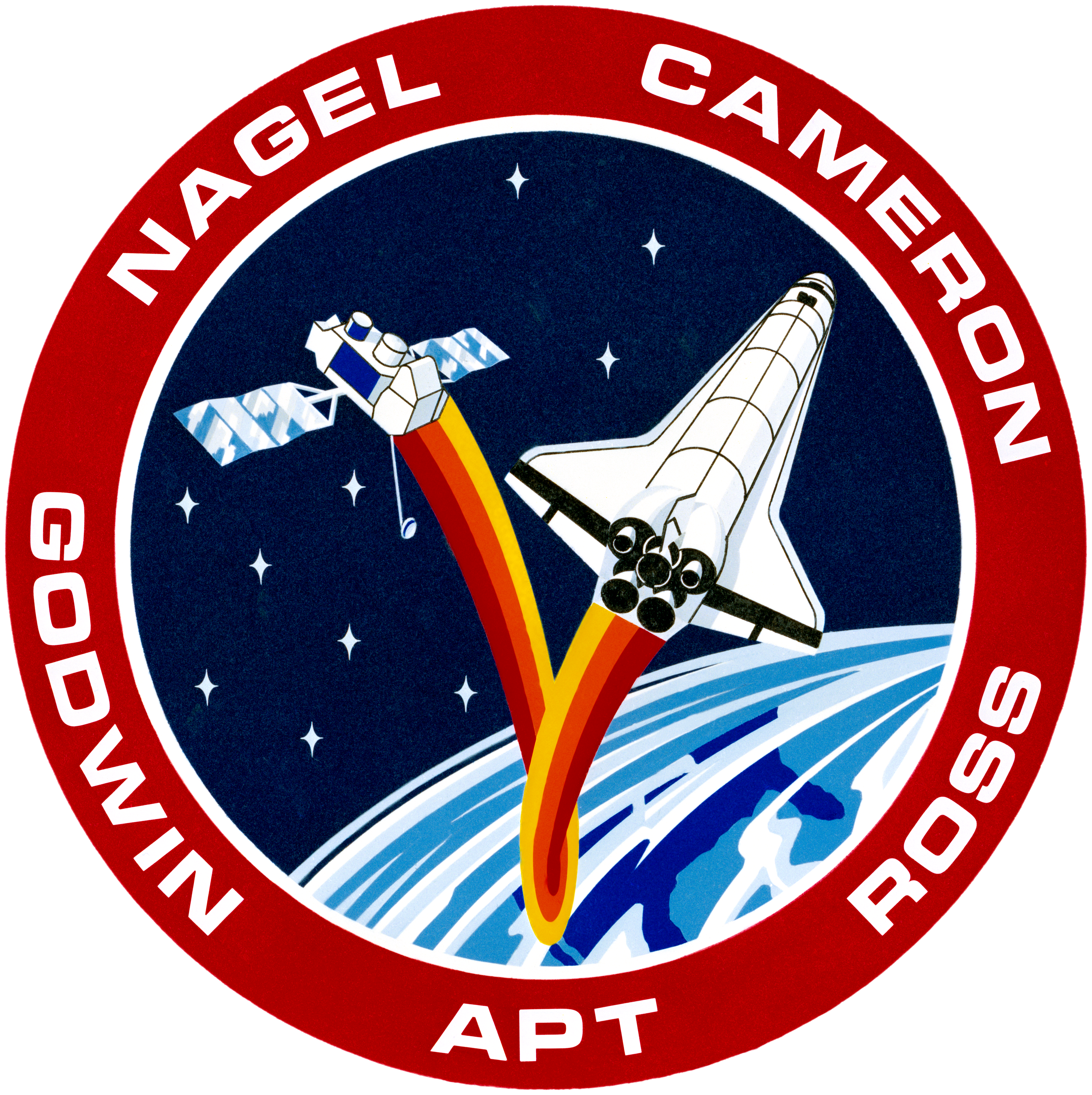 STS-37 Mission Insignia The principal theme of the STS-37 patch, designed by astronaut crewmembers, is the primary payload -- Gamma Ray Observatory (GRO) -- and its relationship to the Space Shuttle. The Shuttle and the GRO are both depicted on the patch and are connected by a large gamma. The gamma symbolizes both the quest for gamma rays by GRO as well as the importance of the relationship between the manned and unmanned elements of the United States space program. The Earth background shows the southern portion of the United States under a partial cloud cover while the two fields of three and seven stars, respectively, refer to the STS-37 mission designation.